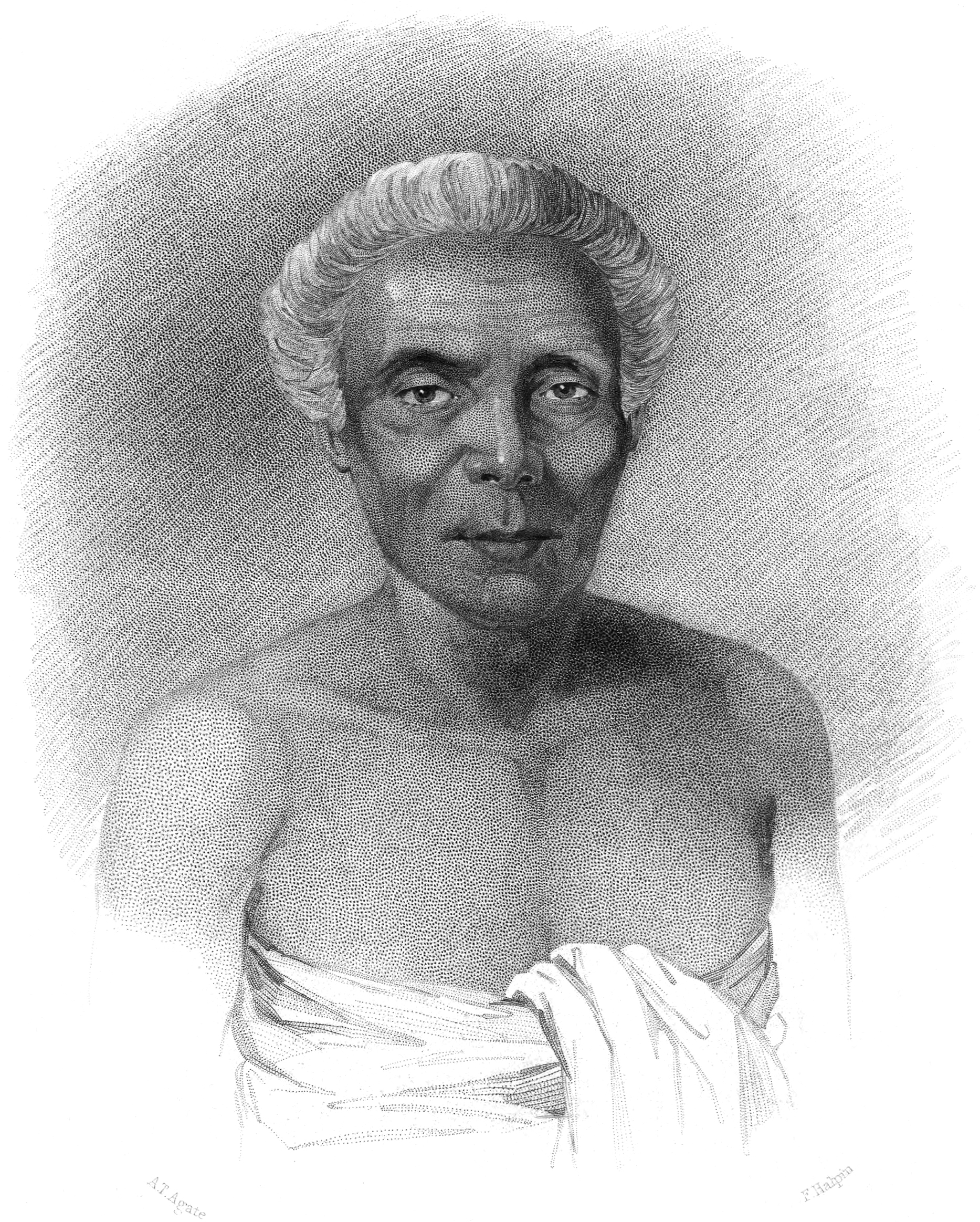 High Chief Malietoa of Upolu. Drawn by Alfred Thomas Agate. Engraved by Jordan and Halpin.